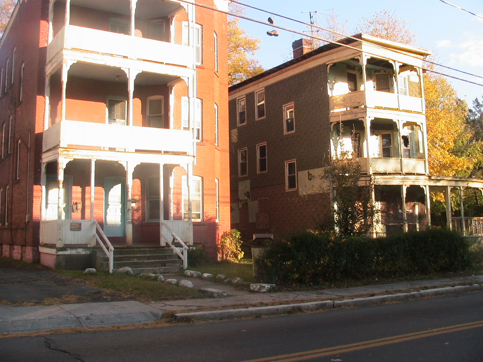 Morth end of Hartford